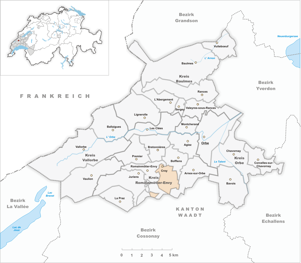 Municipality Croy